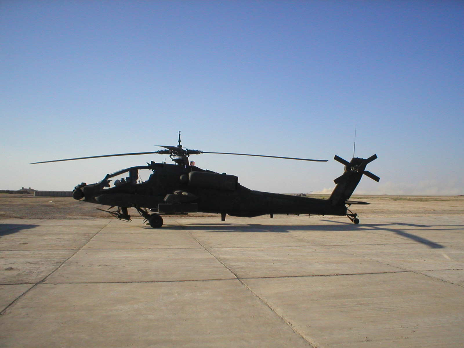 AH-64A on FOB Speicher, near Tikrit, Iraq.